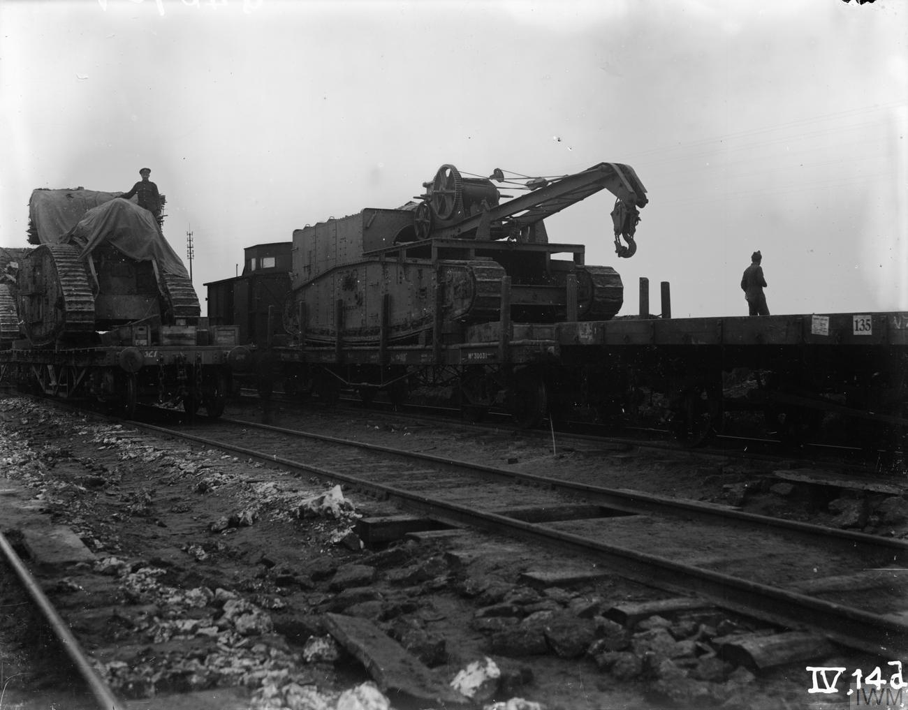 IWM caption : A British Salvage Tank loaded aboard flat-bed railway trucks at Plateau Station in preparation for transportation to the forward area prior to the opening of the Battle of Cambrai. Plateau Station, also known as the Loop Station, was on the New Maricourt military railway line. Another name for this British rail network was the Plateau Line. Comment : These salvage vehicles were varients of the Gun Carrier Mark I.